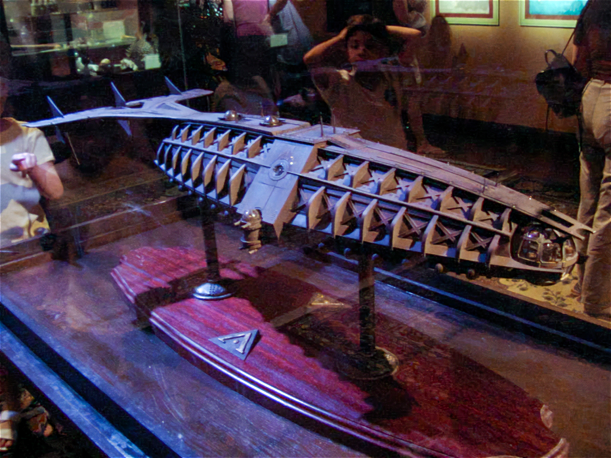 The submarine prop built by Greg Aronowitz which was used during the production of Atlantis: The Lost Empire. The model is seen on display at the Destination Atlantis attraction during the film's premiere.